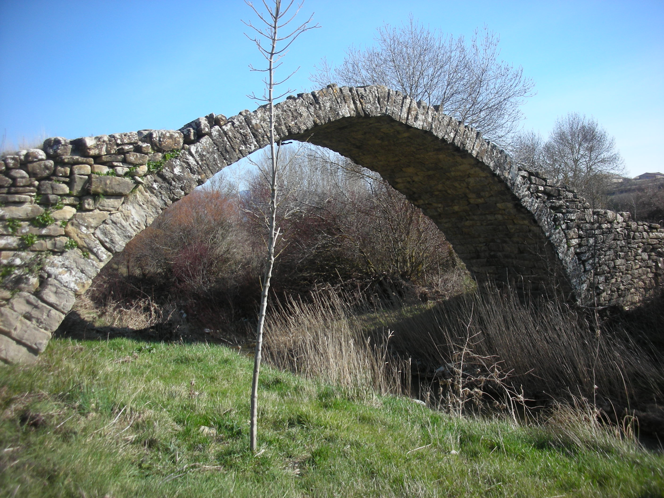 San Calaveris medieval bridge, at San Vicente (Navarre), Spain.